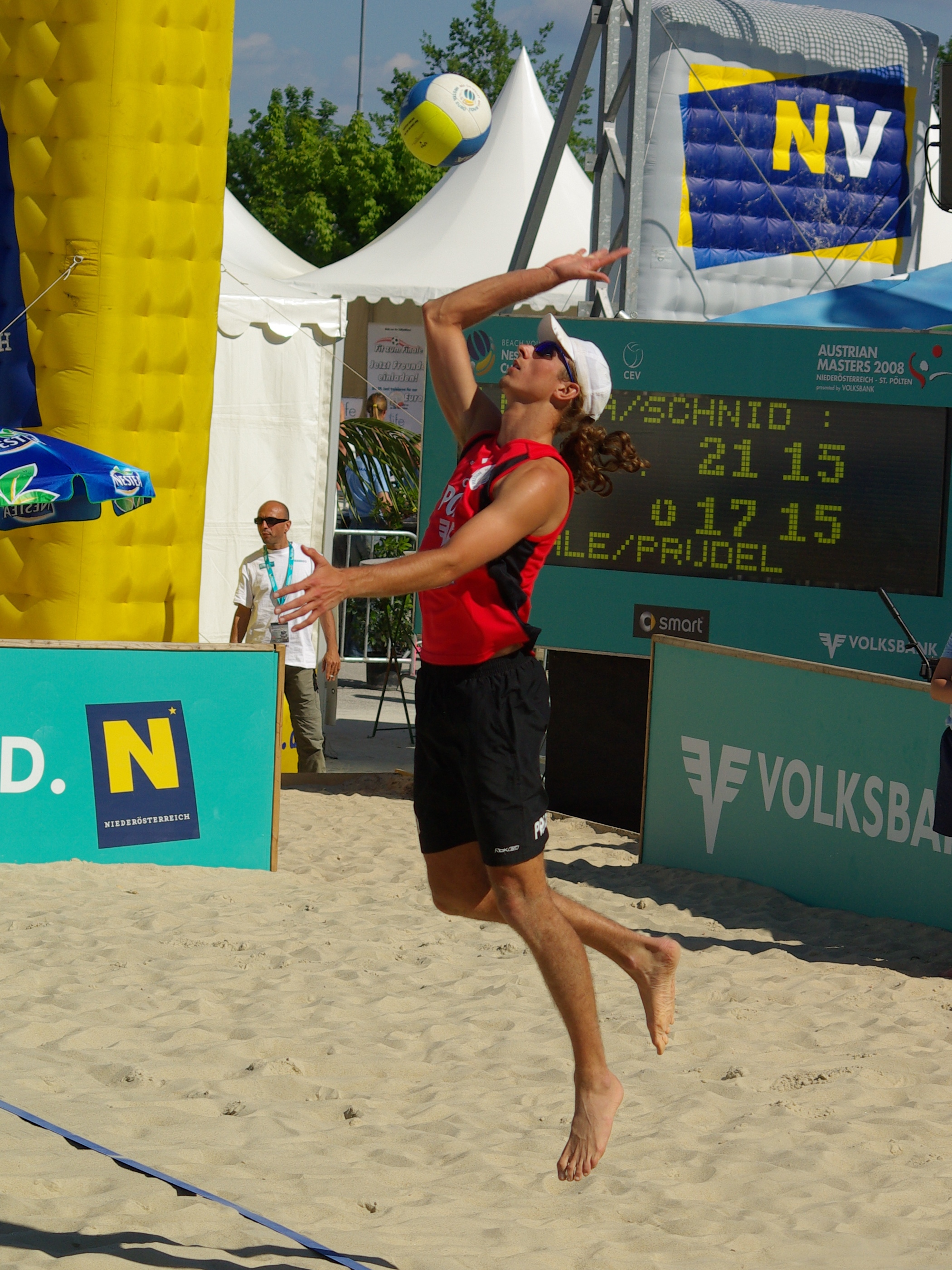 Polish Beach volleyball player Mariusz Prudel at the European Championship Tour 2008 Austrian Masters in St. Pölten.